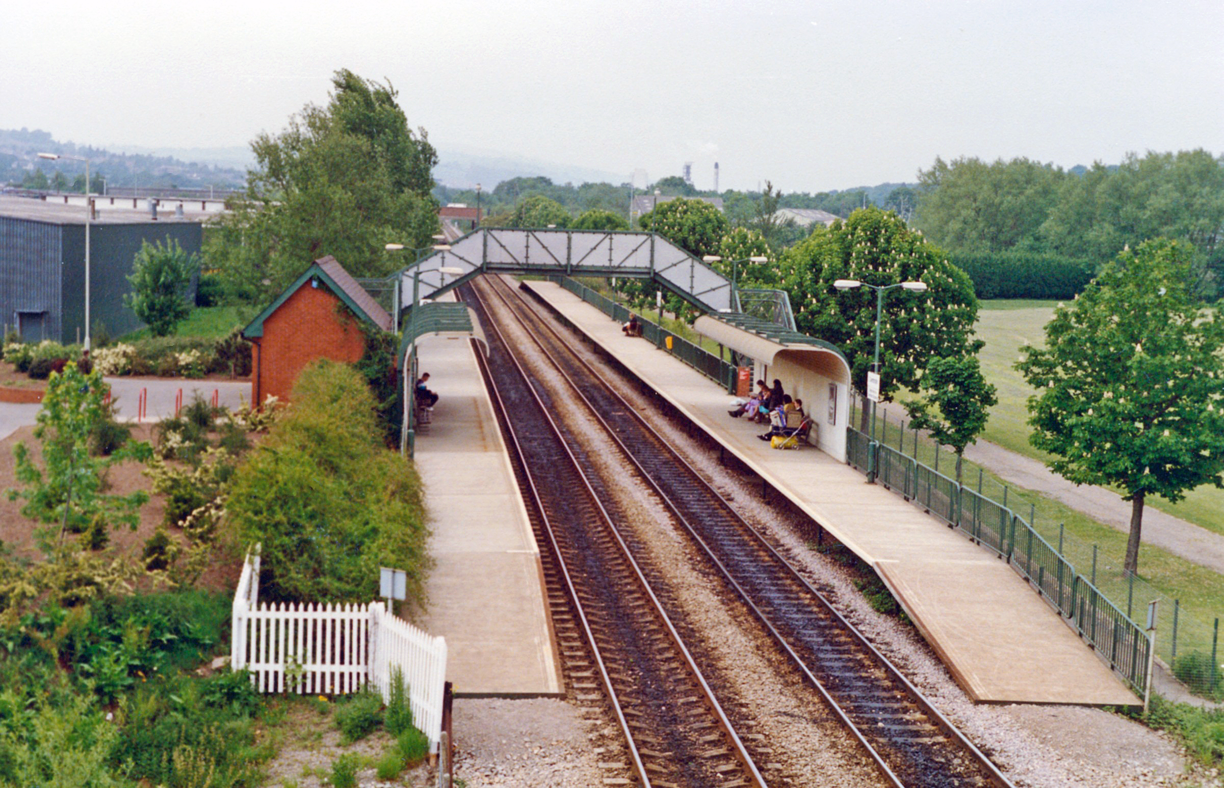 Cwmbran station. View northward, towards Pontypool Road, Abergavenny, Hereford etc.: ex-GWR Newport - Hereford - Shrewsbury main line. This is a new station, opened 12/5/86, on the main line, replacing earlier Cwmbran station on the Blaenavon branch closed 30/4/62.